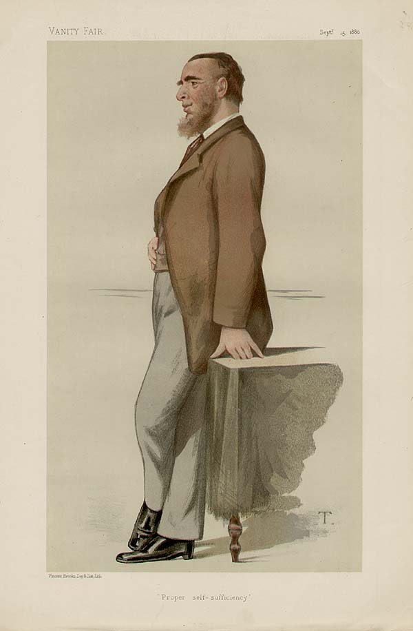 Statesmen No.340: Caricature of Mr LH Courtney MP. Caption reads: "Proper self-sufficiency"